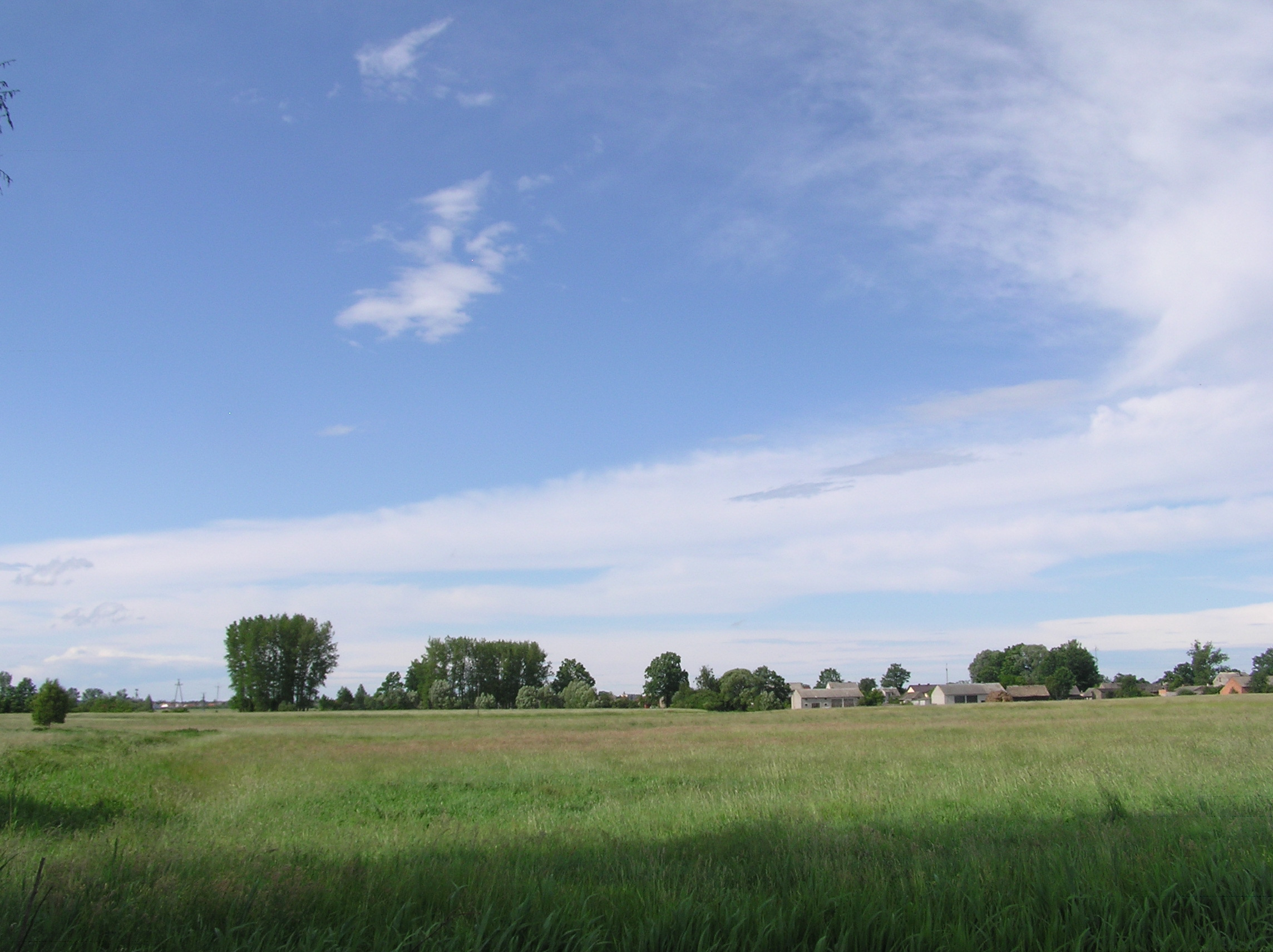 Złoczew (Poland, Łódź Voivodeship, Sieradz County), Starowiejska Street